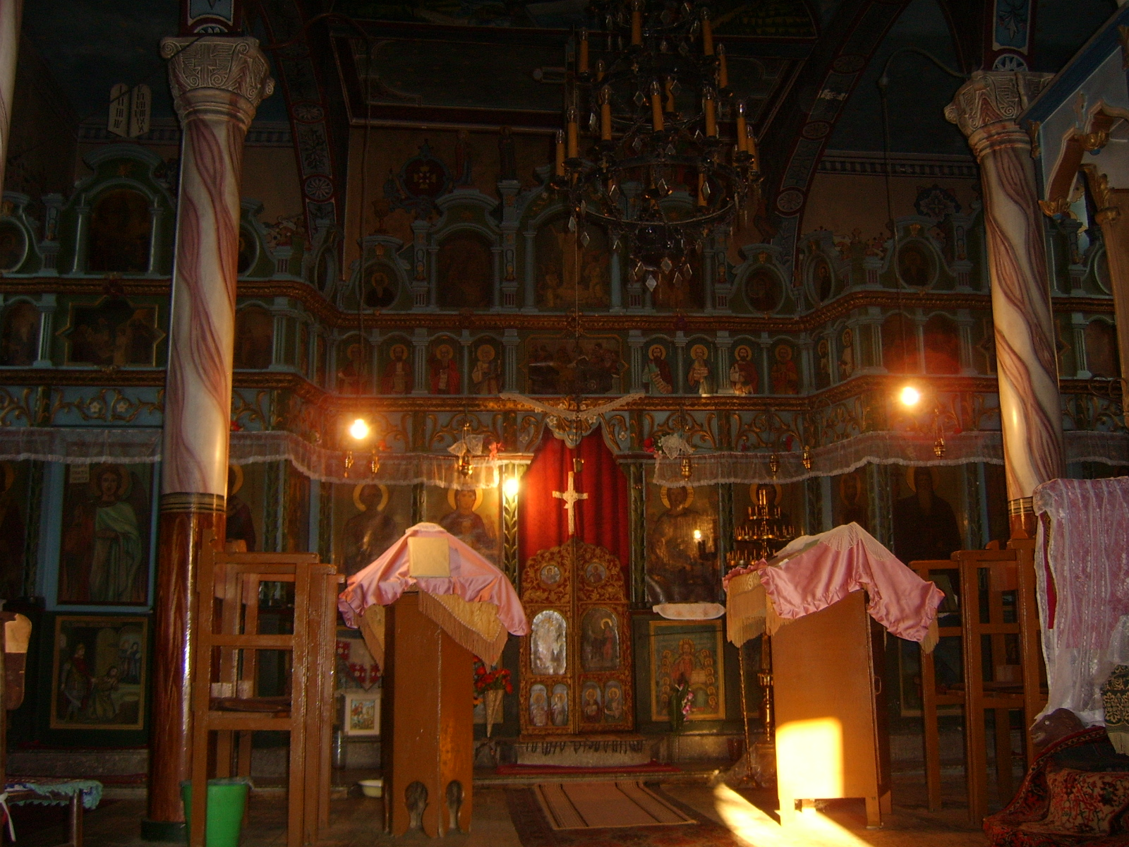 Church altar in Levunovo, Bulgaria.